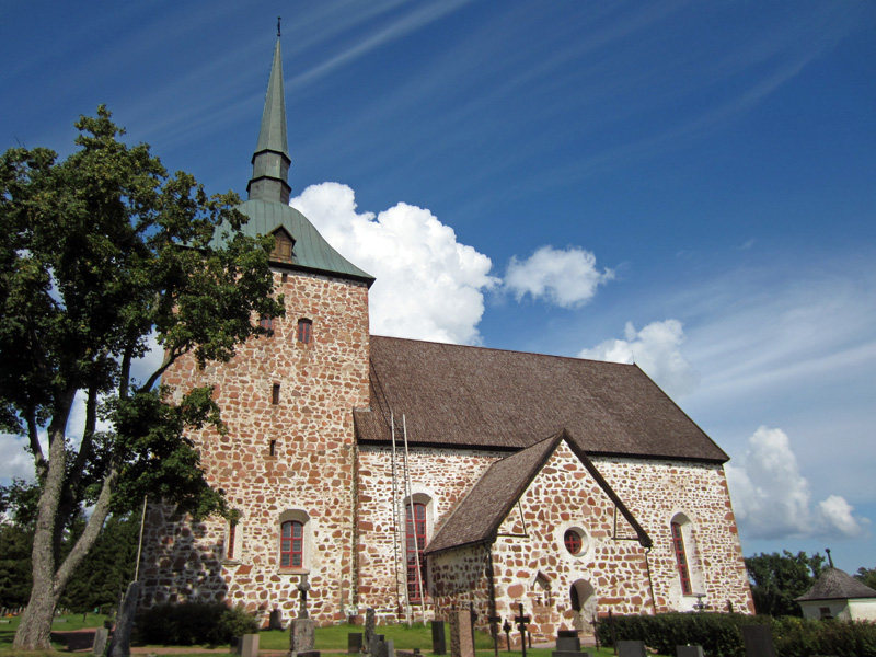 Sund Church, Åland, Finland